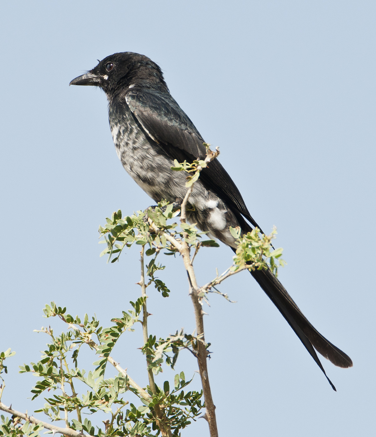 An immature Black Drongo at Tal Chhapar Wildlife Sanctuary, Rajasthan, India.